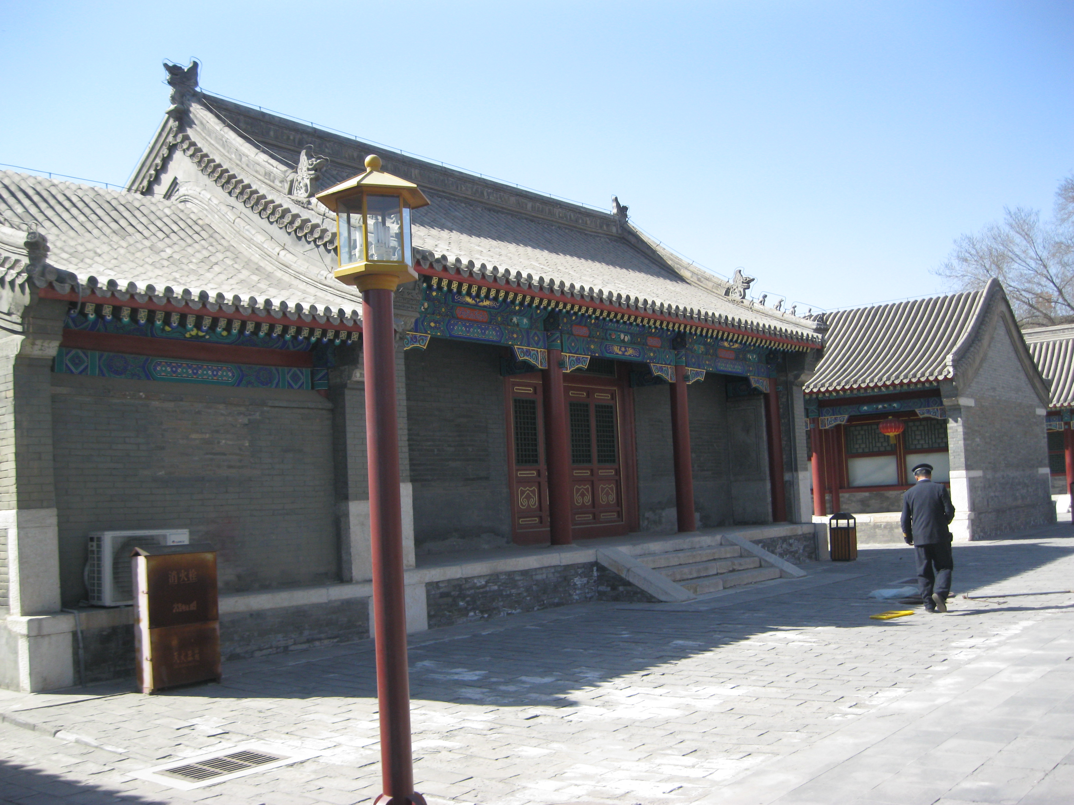 Gulun Jingge Princess's house, Bedroom